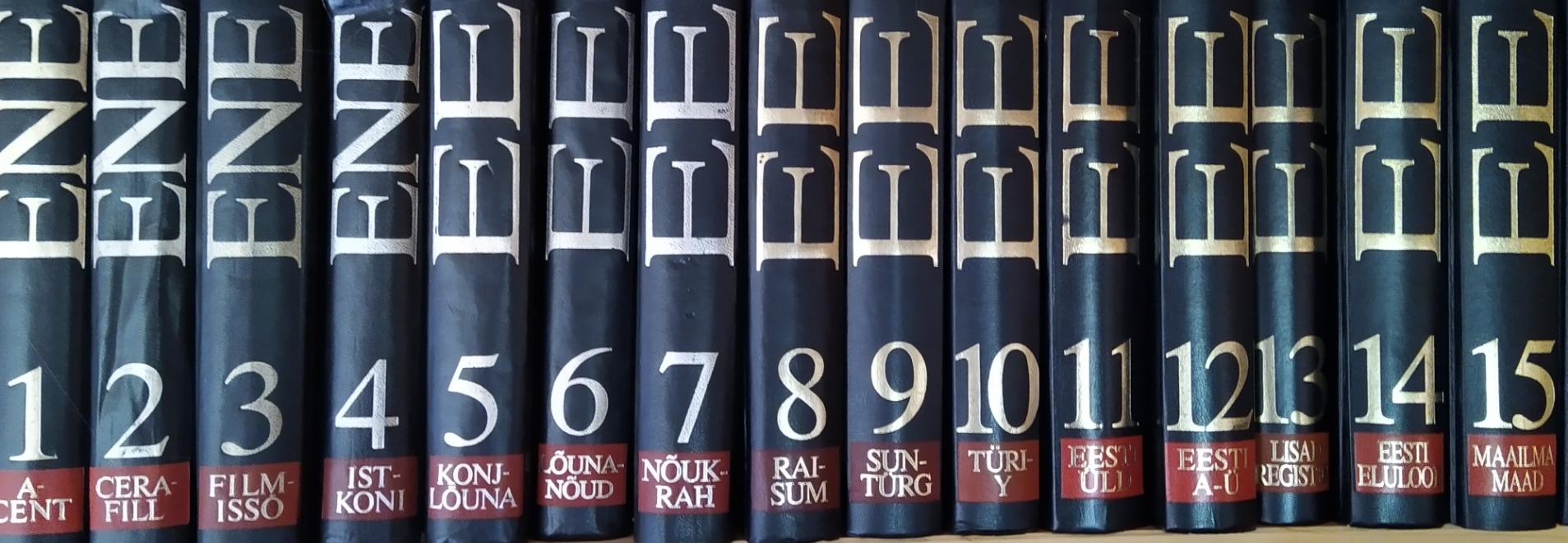 Second edition of the Soviet Estonian Encyclopedia (started to appear in 1985), dropping the word 'Soviet' in 1990 with the 5th volume.